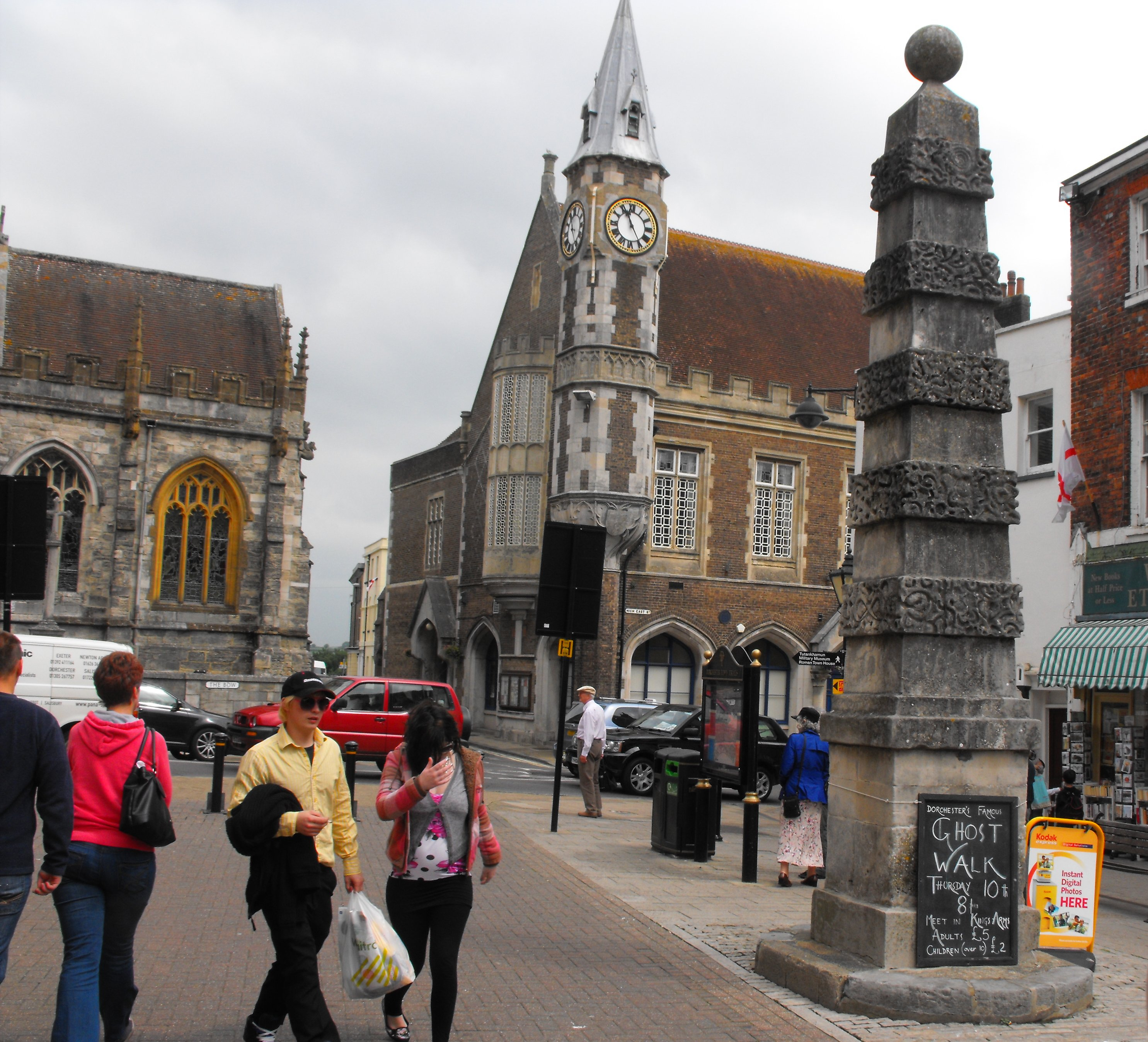 Pump monument in Dorchester